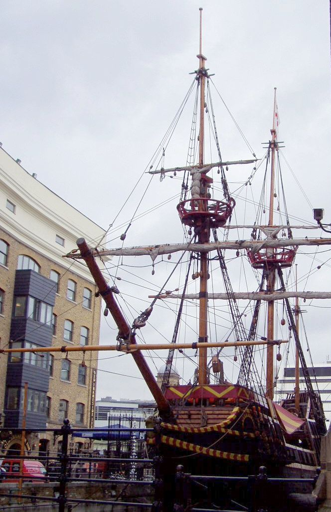 A frontal view. Cramped between tall buildings, the Golden Hind lies in a small dock on the River Thames